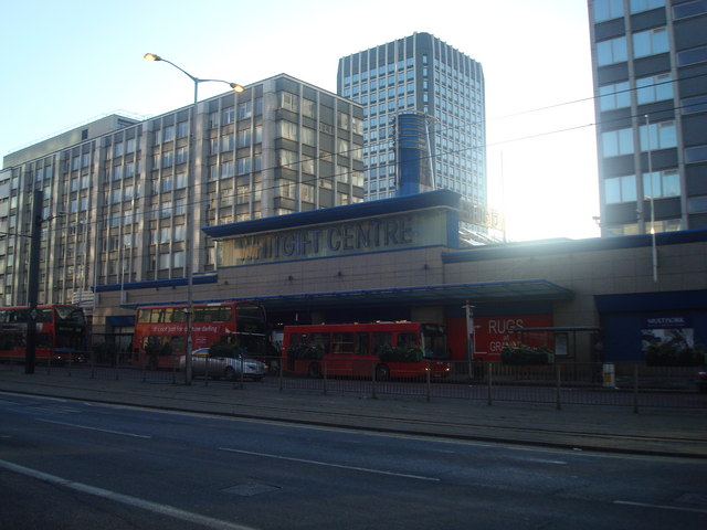 Whitgift Centre, Wellesley Road entrance